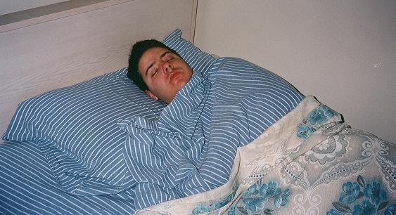 Man sleeping on striped sheets.